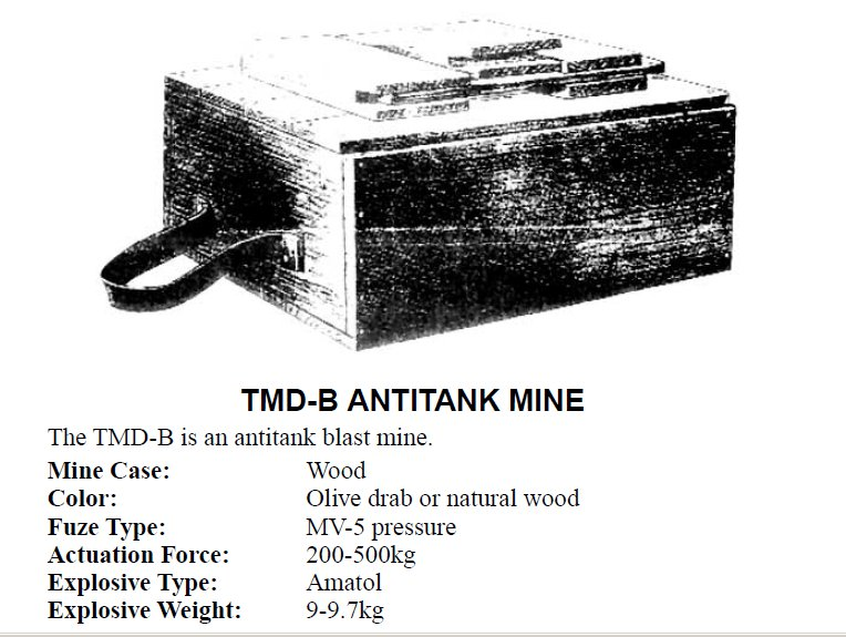 The TMD-B is an antitank blast mine. Mine Case: Wood Color: Olive drab or natural wood Fuze Type: MV-5 pressure Actuation Force: 200-500kg Explosive Type: Amatol Explosive Weight: 9-9.7kg